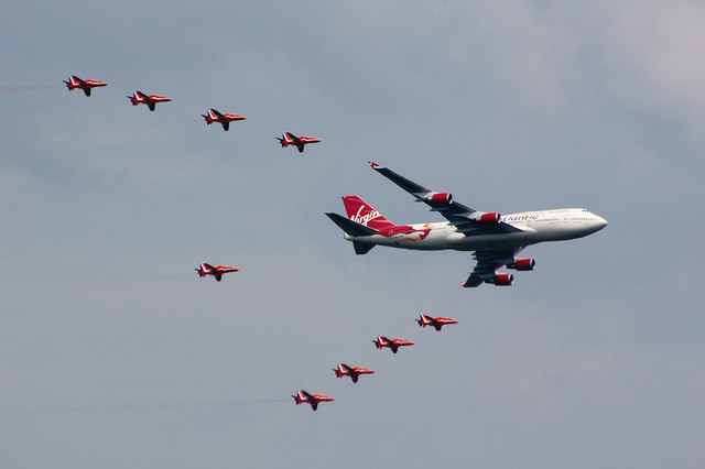 Virgin Atlantic 25th Anniversary flypast, 2009 Biggin Hill Airshow.